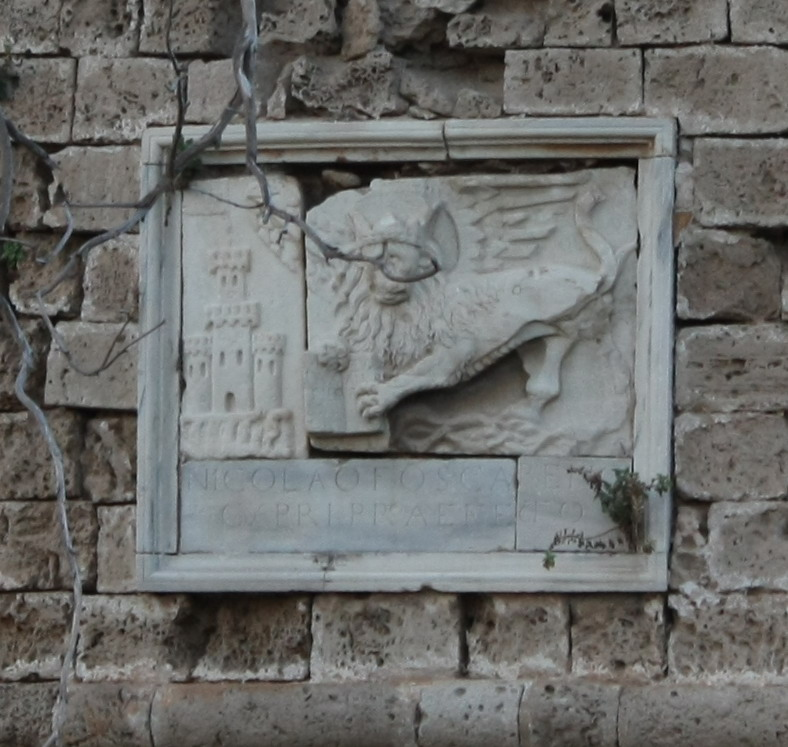 Lion of St Mark stone relief on the walls of the Othello Castle in Famagusta, Cyprus. Below the lion there's a name of Nicolo Foscari who restored the tower.